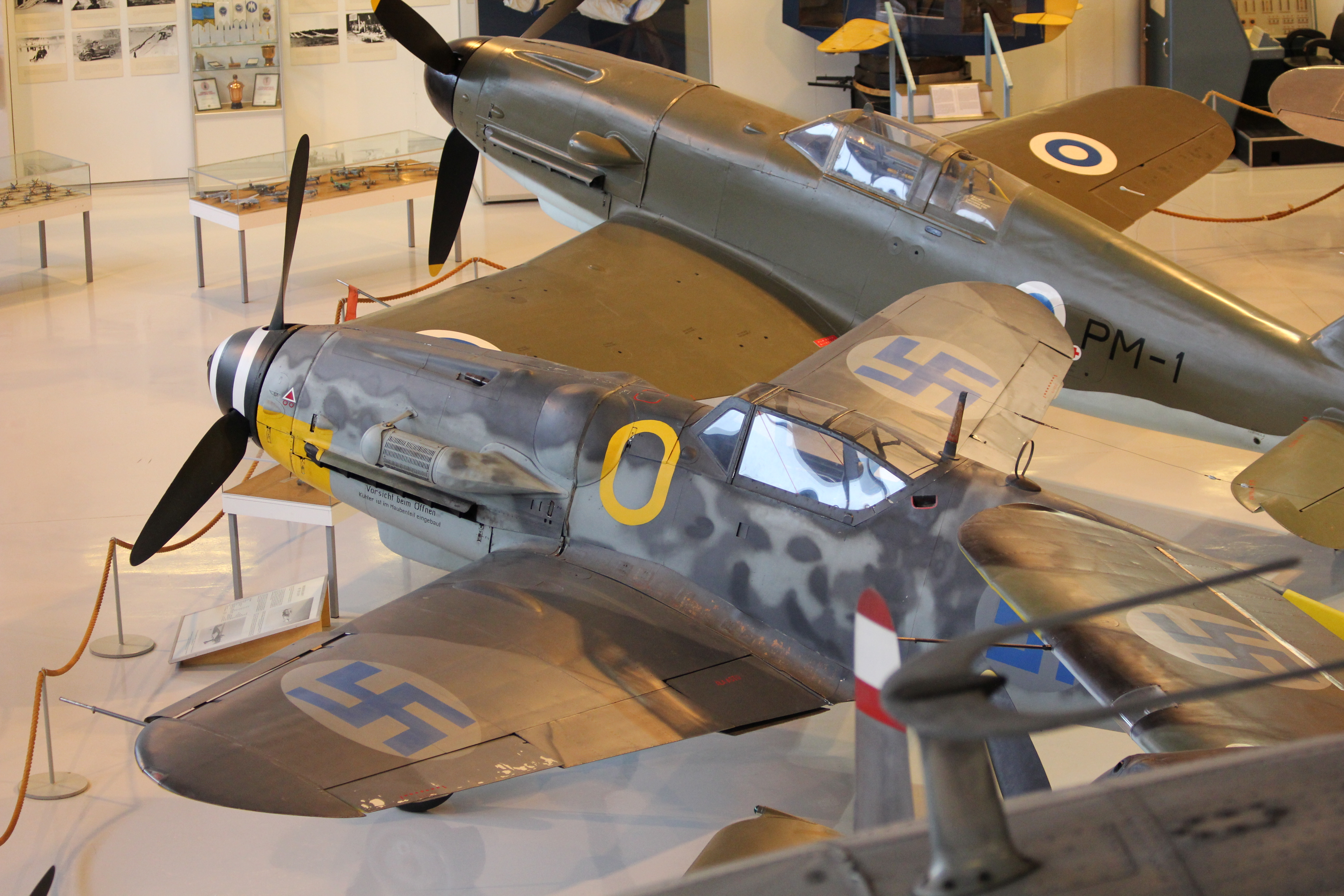 Messerschmitt Bf 109 G-6 (MT-507) fighter and Finnish VL Pyörremyrsky prototype (PM-1) in the Aviation Museum of Central Finland.